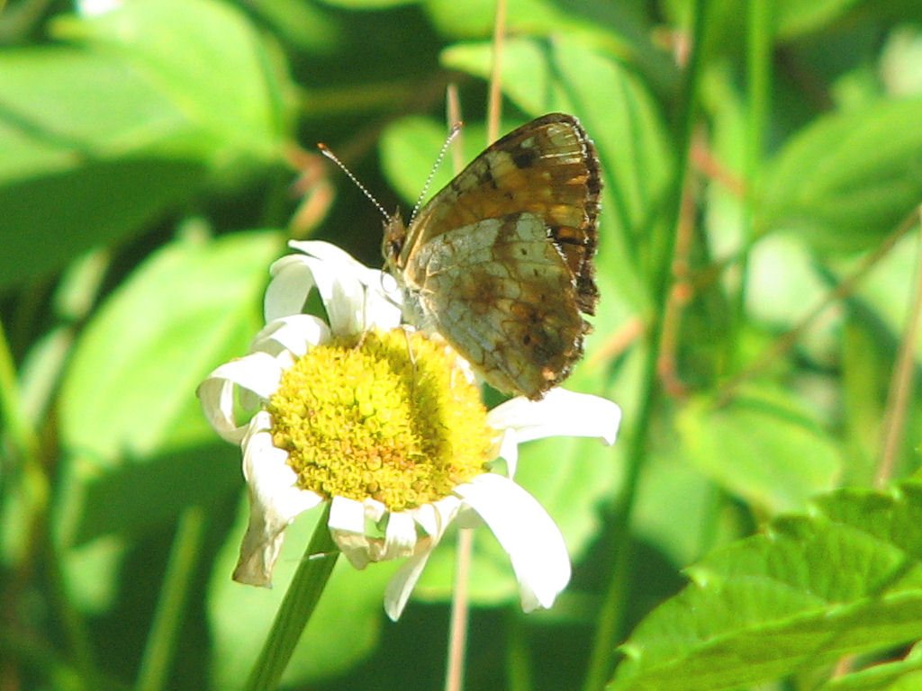 Northern Crescent (Phyciodes cocyta), Mer Bleue Conservation Area, Ottawa, Ontario